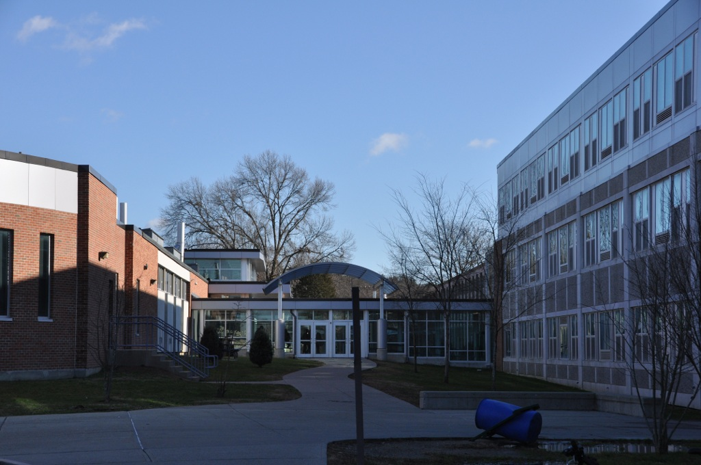 The entrance to Newton South High School in Newton, Massachusetts.